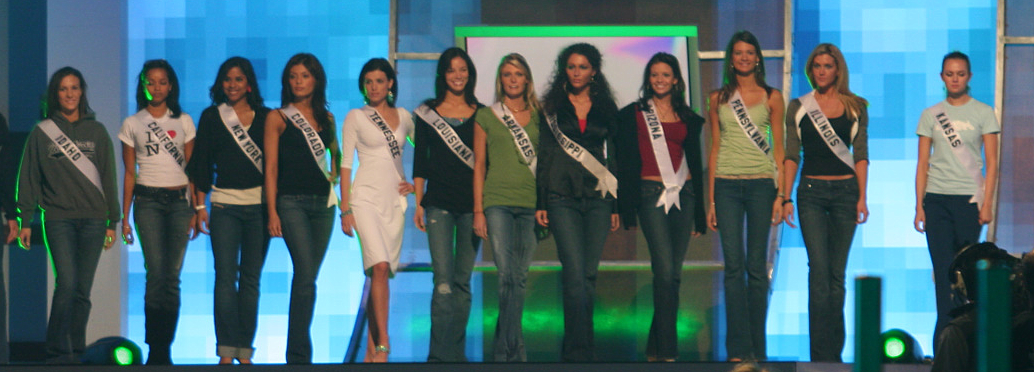 Contestants rehearsing for the Miss USA 2006 pageant